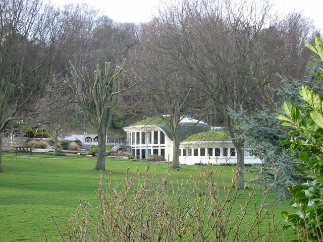 Eco house at Pines Garden Environmentally friendly conference facility